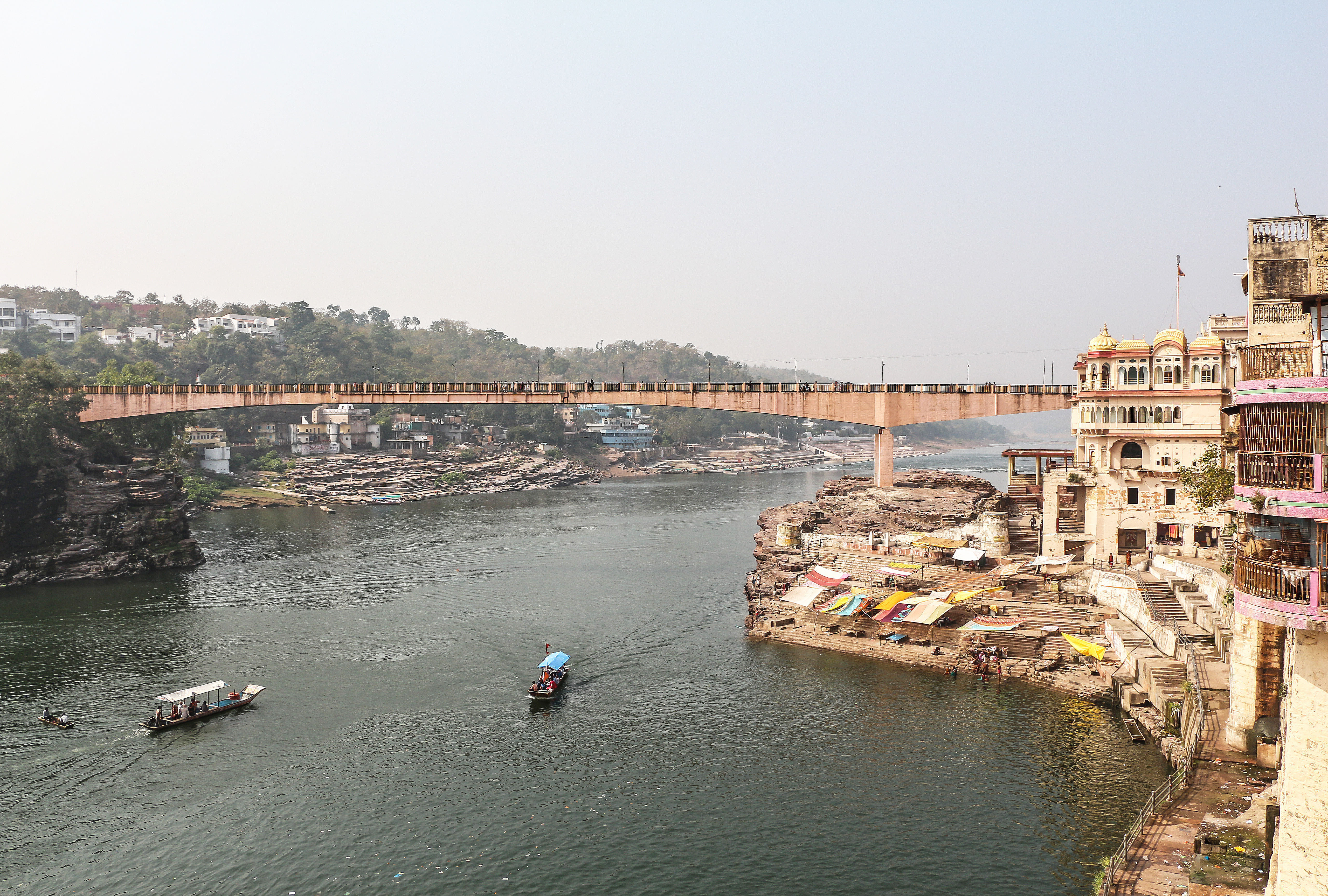 Narmada River in Omkareshwar, India